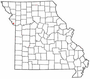 Modified from a map on Wikipedia.